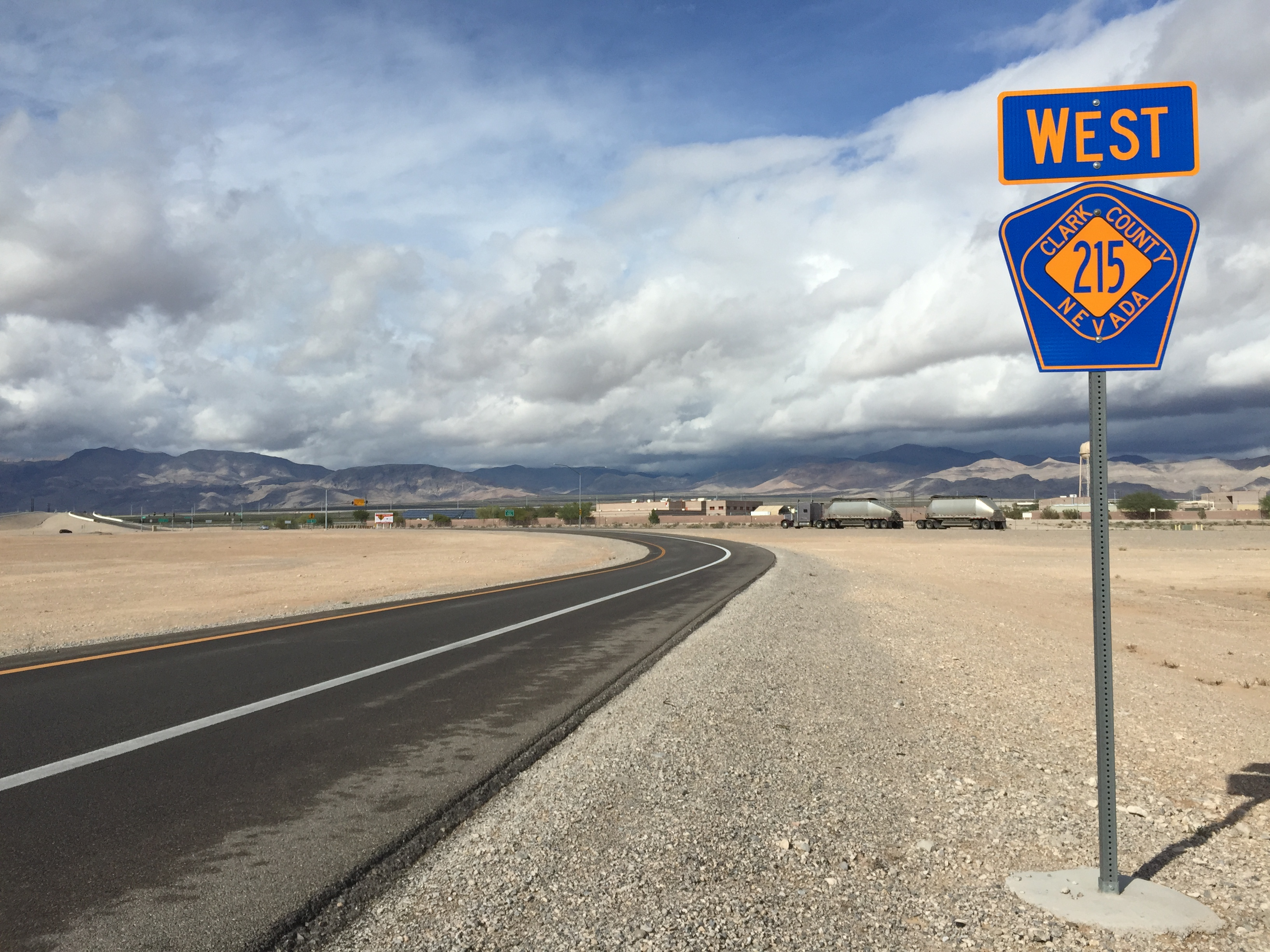 View west from the northeast end of Clark County Route 215 (Las Vegas Beltway) in North Las Vegas, Nevada